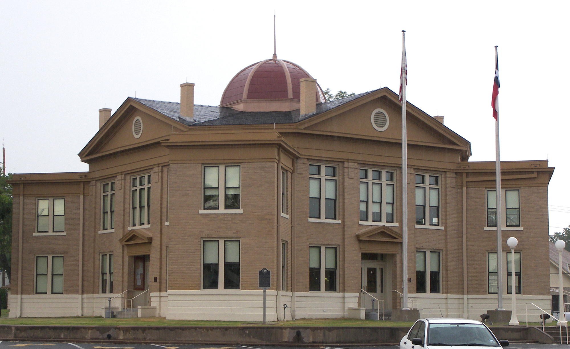 The Rains County, Texas courthouse located in Emory, Texas, United States. The building was designated a Recorded Texas Historic Landmark in 2002 and listed on the National Register of Historic Places on May 1, 2003.